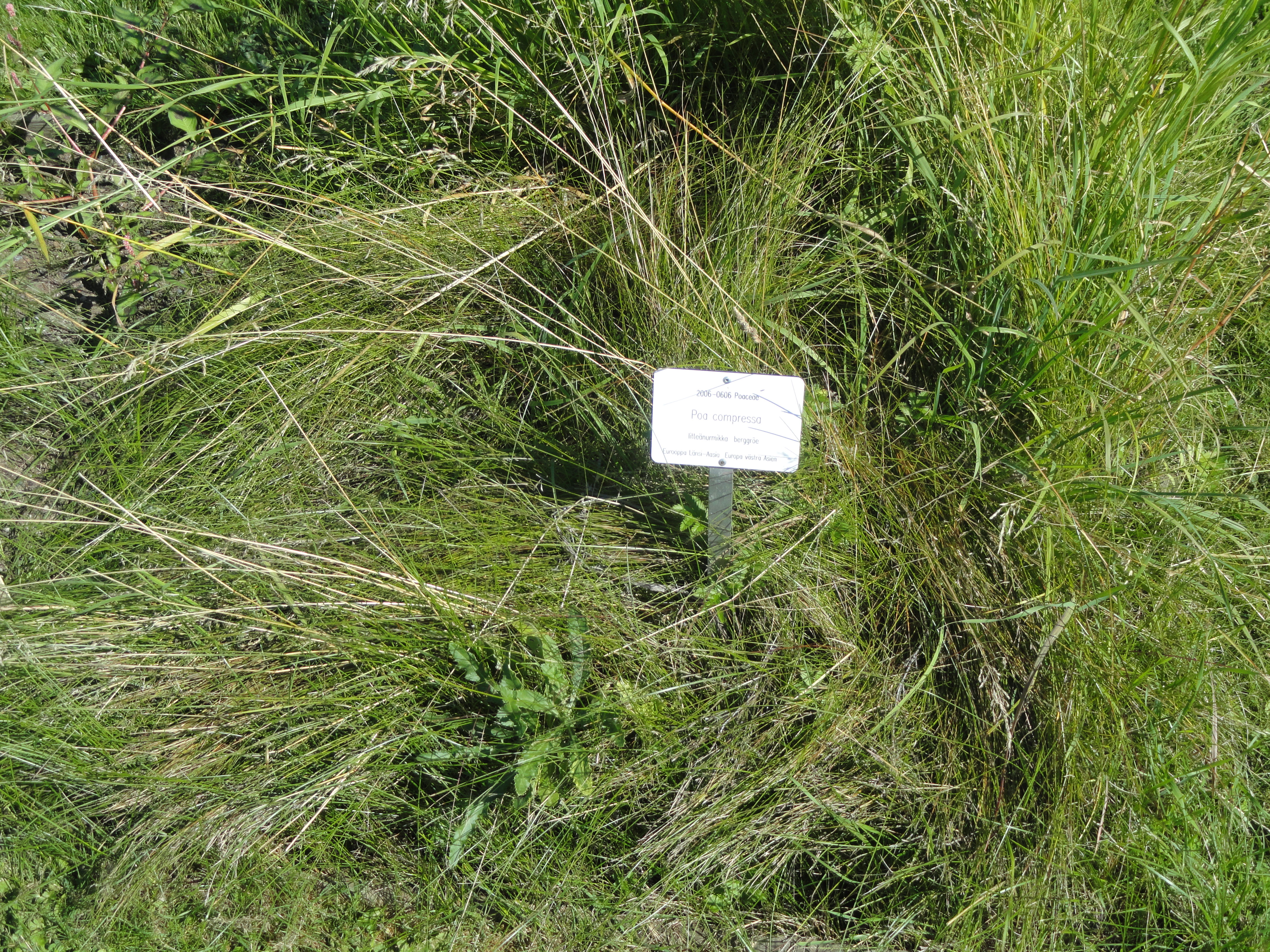 Botanical specimen. The University of Helsinki Botanical Garden at Kaisaniemi